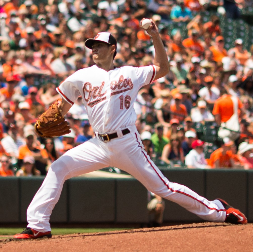 so..Baltimore, Md..Photo date: 05-25-2015..Photo by Nate Pesce..Orioles pitcher #16 Wei-Yin Chen winds back for a pitch..Military Appreciation Day at Camden Yards, where Fort Meade service members met Orioles players, the joint color guard presented the colors, and Col. Brian Foley threw the first pitch to open the game against the Houston Astros, May 25, 2015.